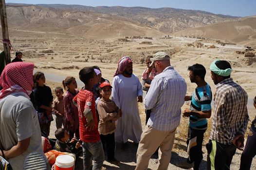 A member of the U.S. Mt. Sinjar Assessment Team being greeted by locals near Sinjar, Iraq.; original description: "A member of the U.S. Mt. Sinjar Assessment Team receives a warm welcome from locals near Sinjar, Iraq, Aug. 13, 2014. The team consisted of members from the U.S. Agency for International Development Disaster Assistance Response Team (pictured) and U.S. military personnel, who conducted an assessment to determine the impact of current humanitarian assistance efforts and whether additional supplies or assistance were required.", Uploaded on flickr: 19 August 2014